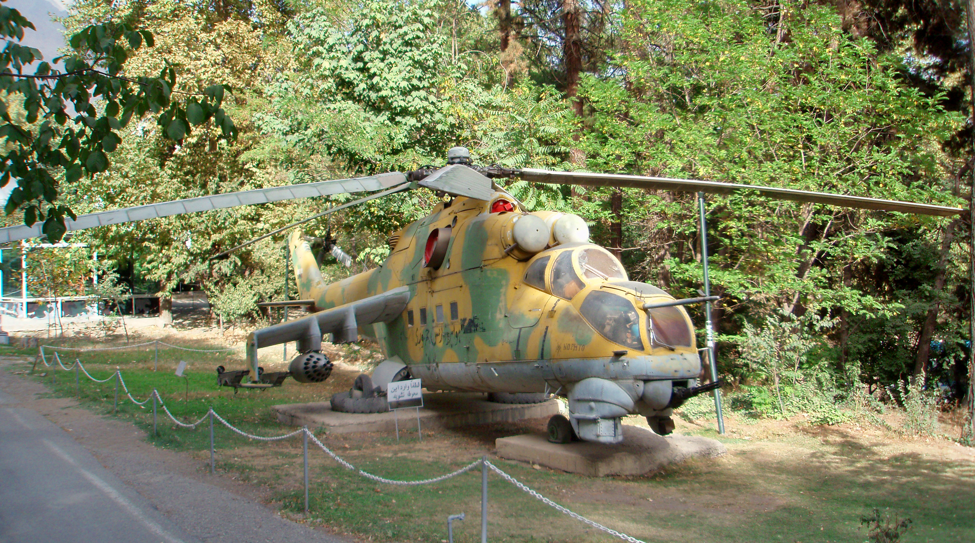 Iraqi helicopter Mil Mi-24 which has been abandoned during the Iran–Iraq War in an exposition of a Military museum in Tehran